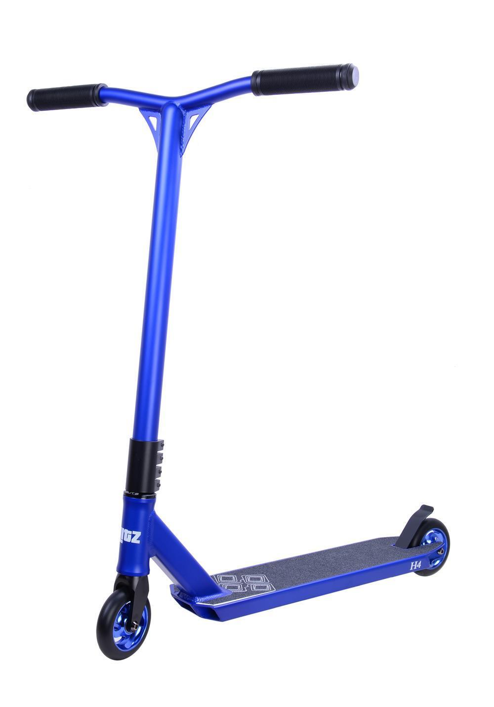 INDIYSK8SNAIKS EVERYDAY TRANSPORTATION